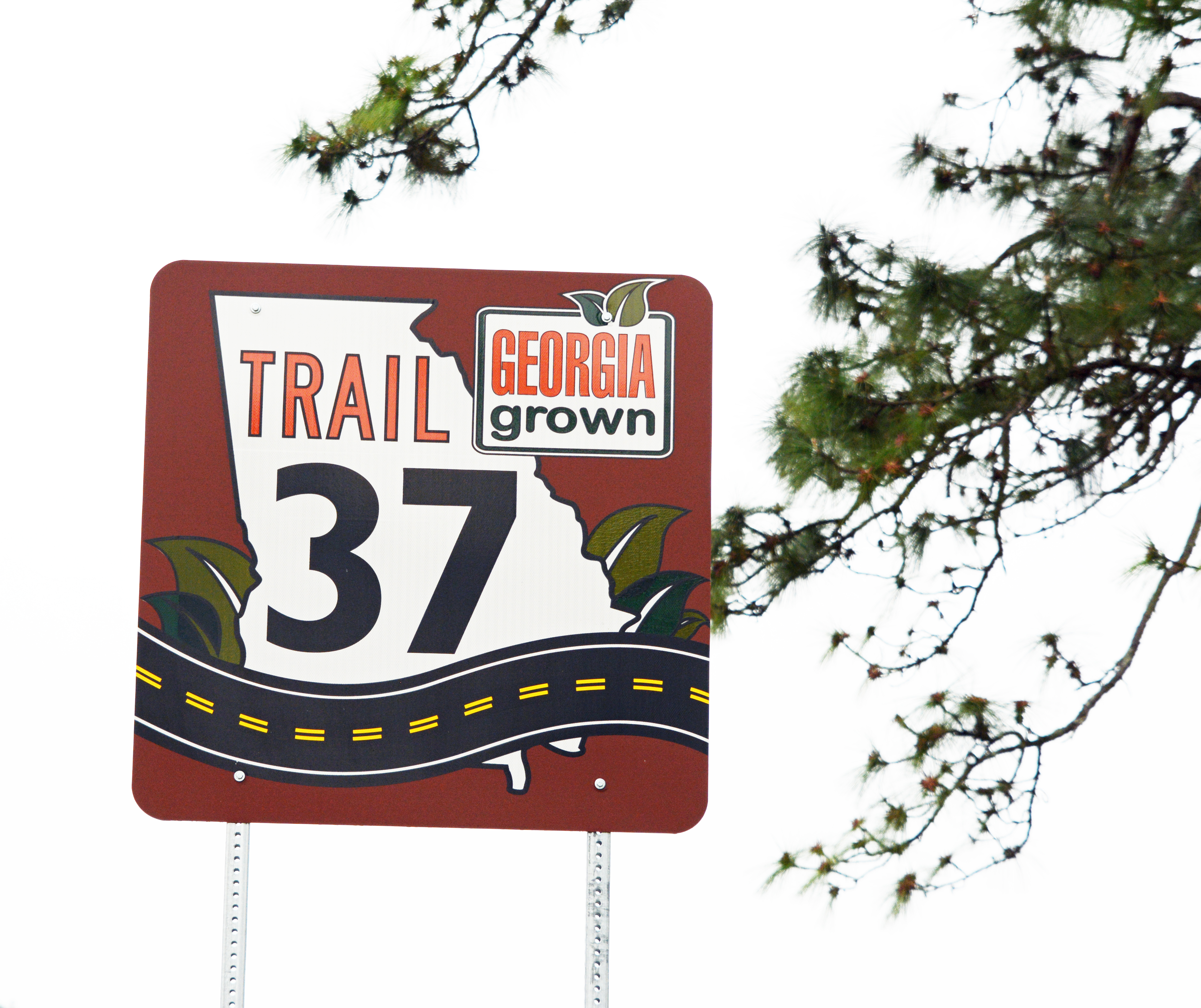 Sign on Georgia Route 37 outside Ray City, Georgia, US